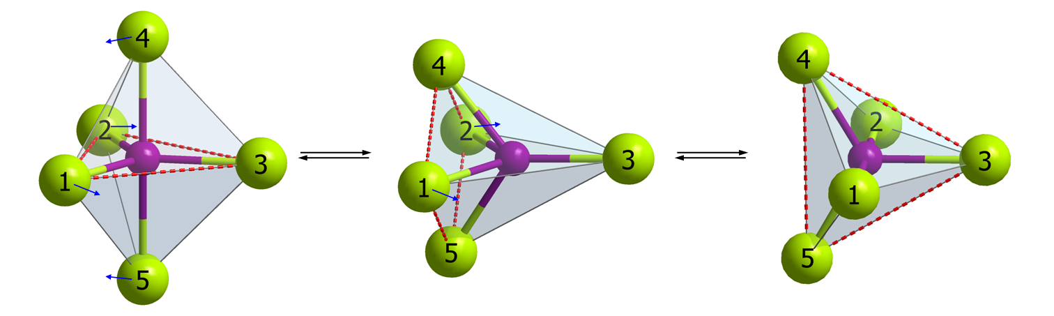 Berry pseudorotation: Apical and equatorial ligands of a molecule with trigonal bipyramidal shape change positions with a square pyramid as intermediate coordination sphere.